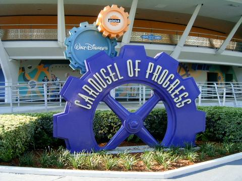 Walt Disney's Carousel of Progress at Walt Disney World's Magic Kingdom